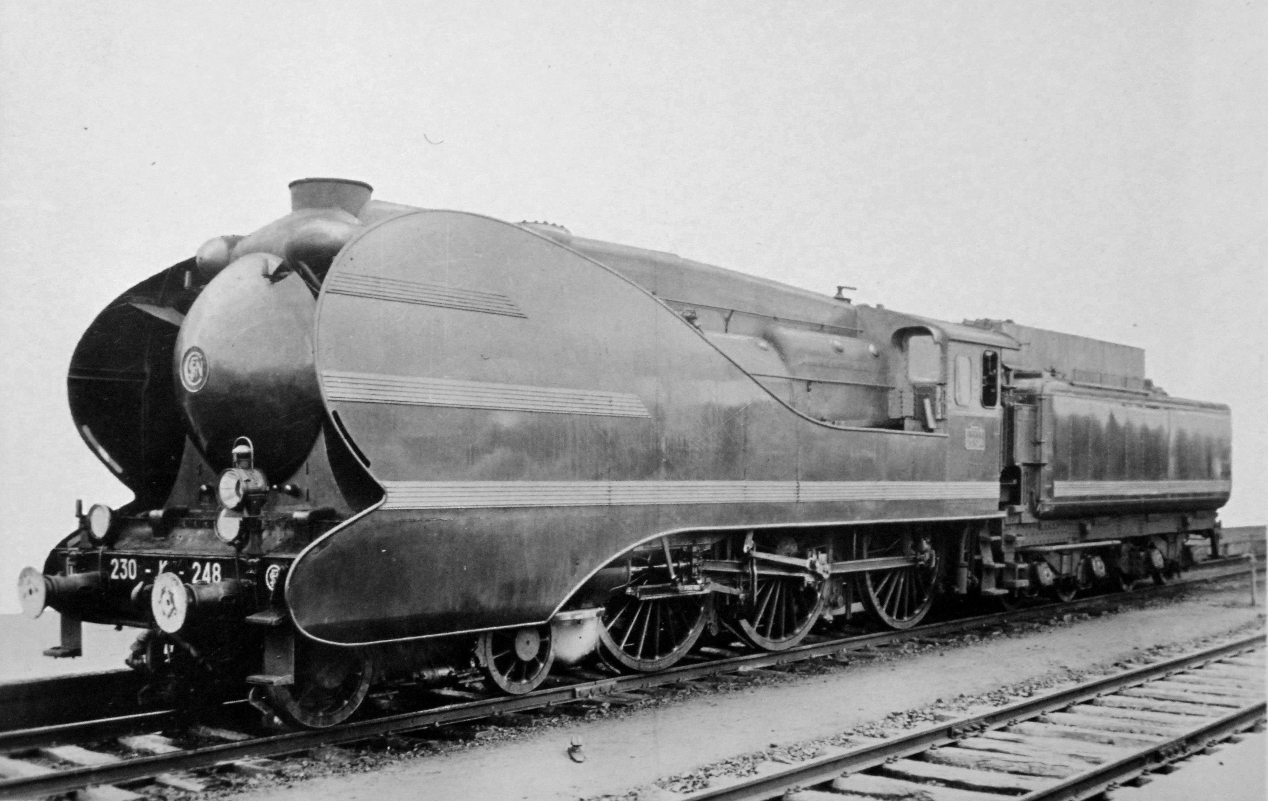 Locomotive type 4-6-0 K of SNCF